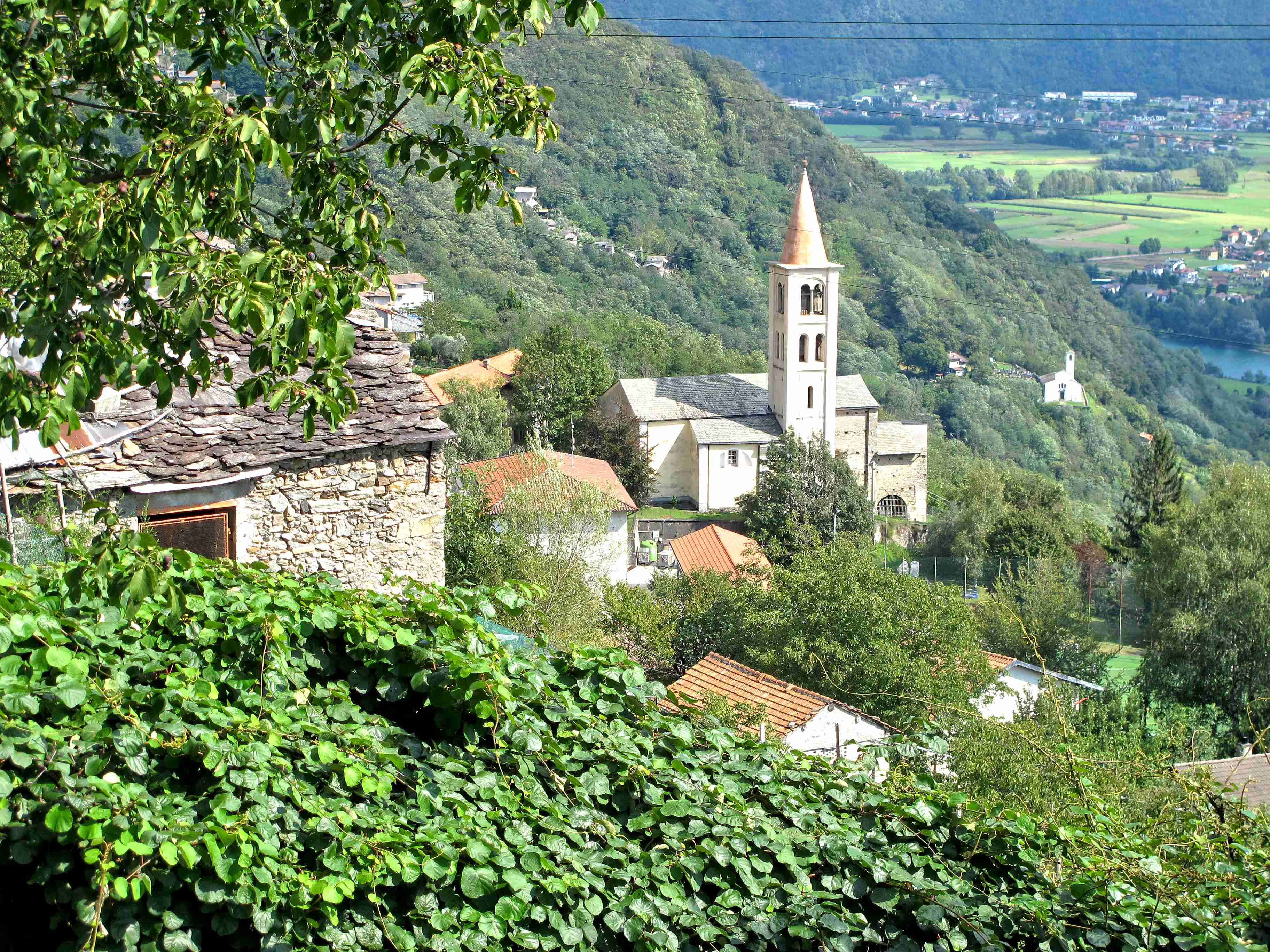 Montemezzo, Italy, Lombardy, Chiesa San Martina di Tours (parish church)